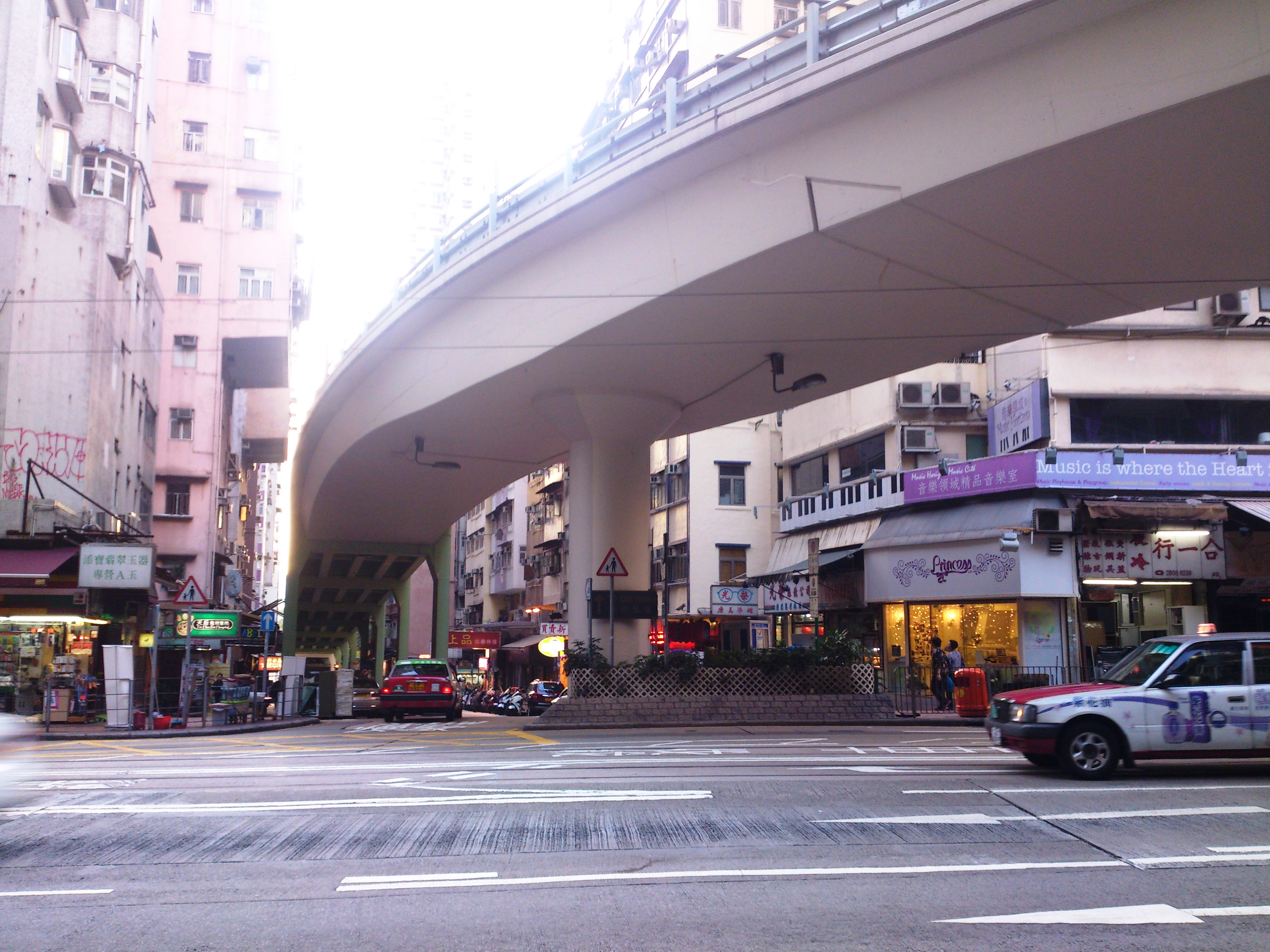 Tsing Fung Street Flyover near King's Road